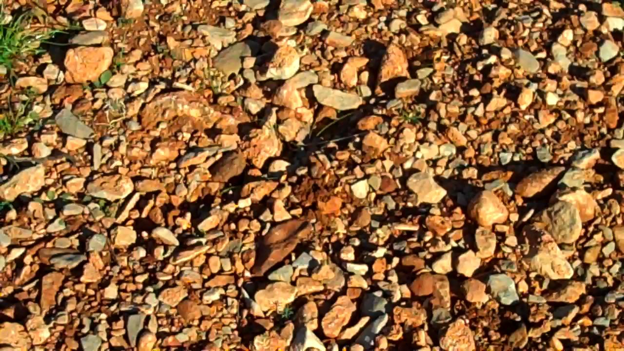 (from the author) "The soil composition at La Peira is hardly soil at all. Like a rock salad composed of dozens of different types of stone. This harsh terroir forces the vines to dig real deep and keep low, concentrated yields."